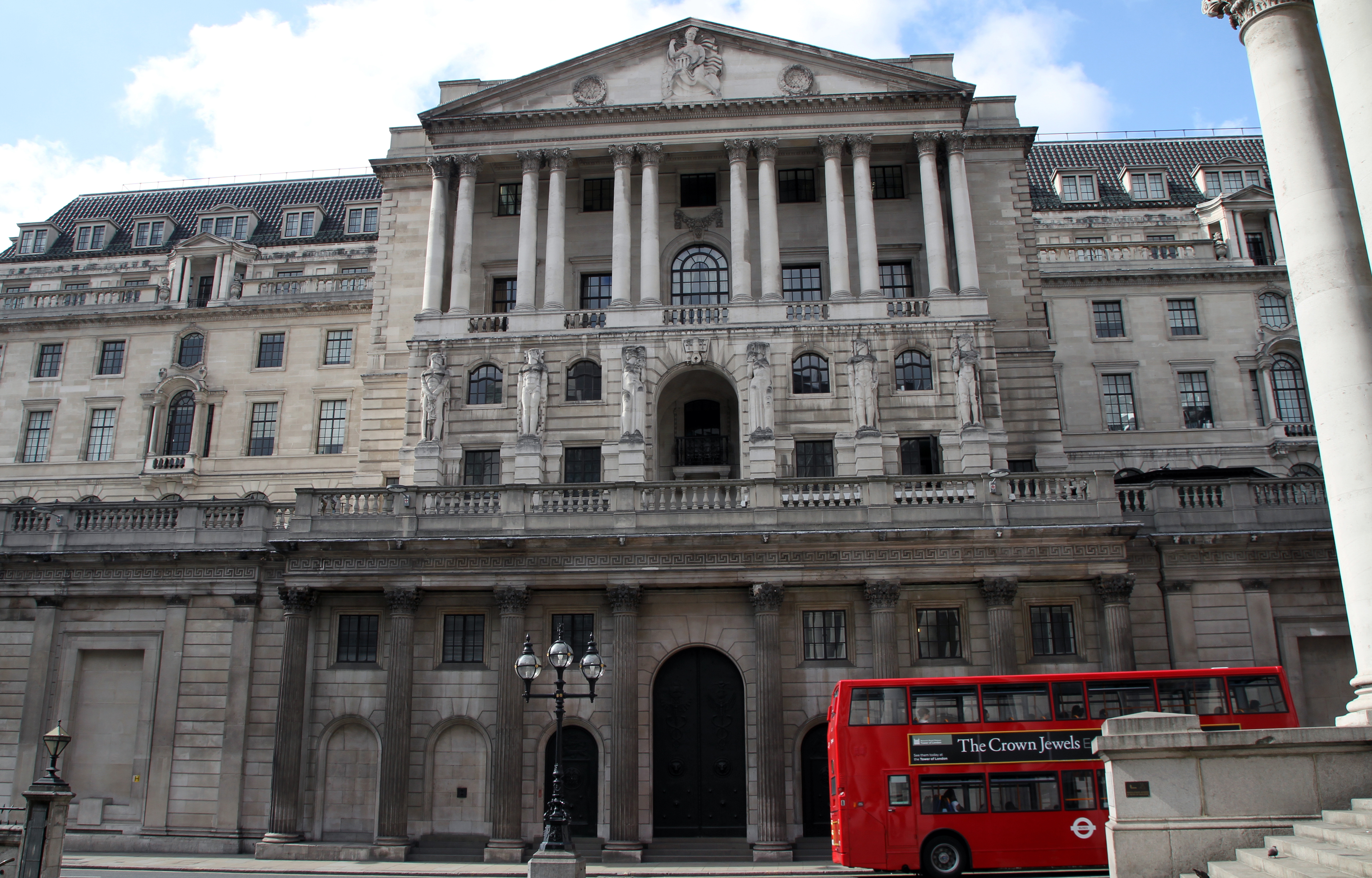 Bank of England in London, England, UK.